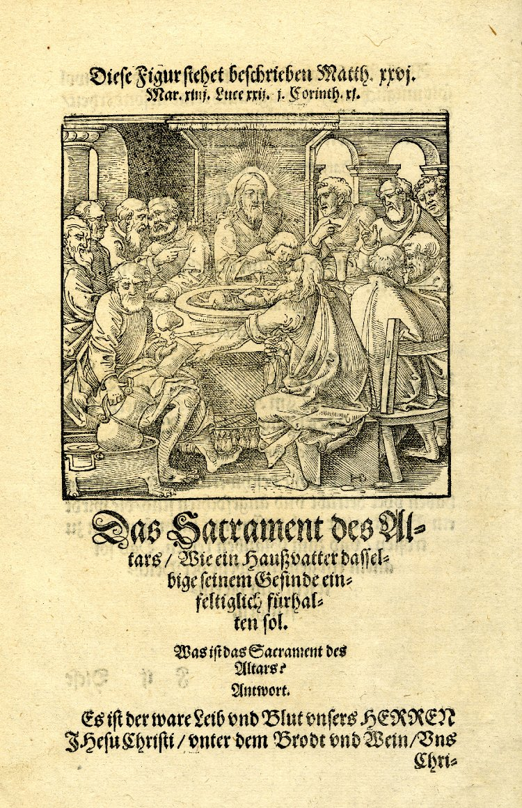 Woodcut by hans Brosamer of the Last Supper from the 1550 Frankfurt edition of the small Catechism of Martin Luther